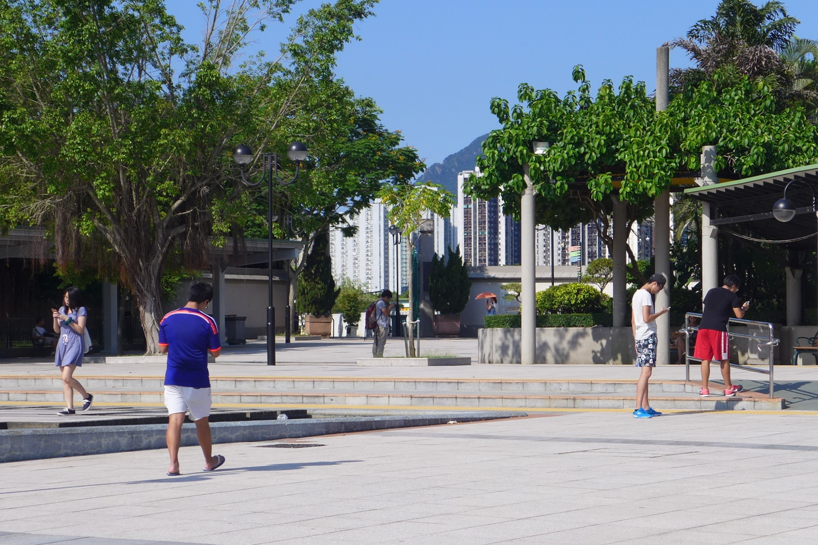 Teenagers play Play Pokemon Go in Shatin Park